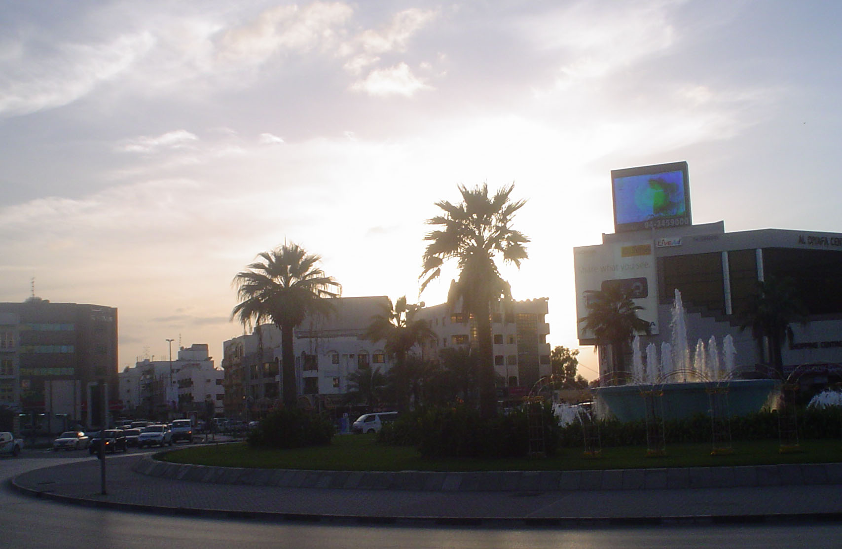 Satwa Roundabout, Satwa, Dubai, United Arab Emirates